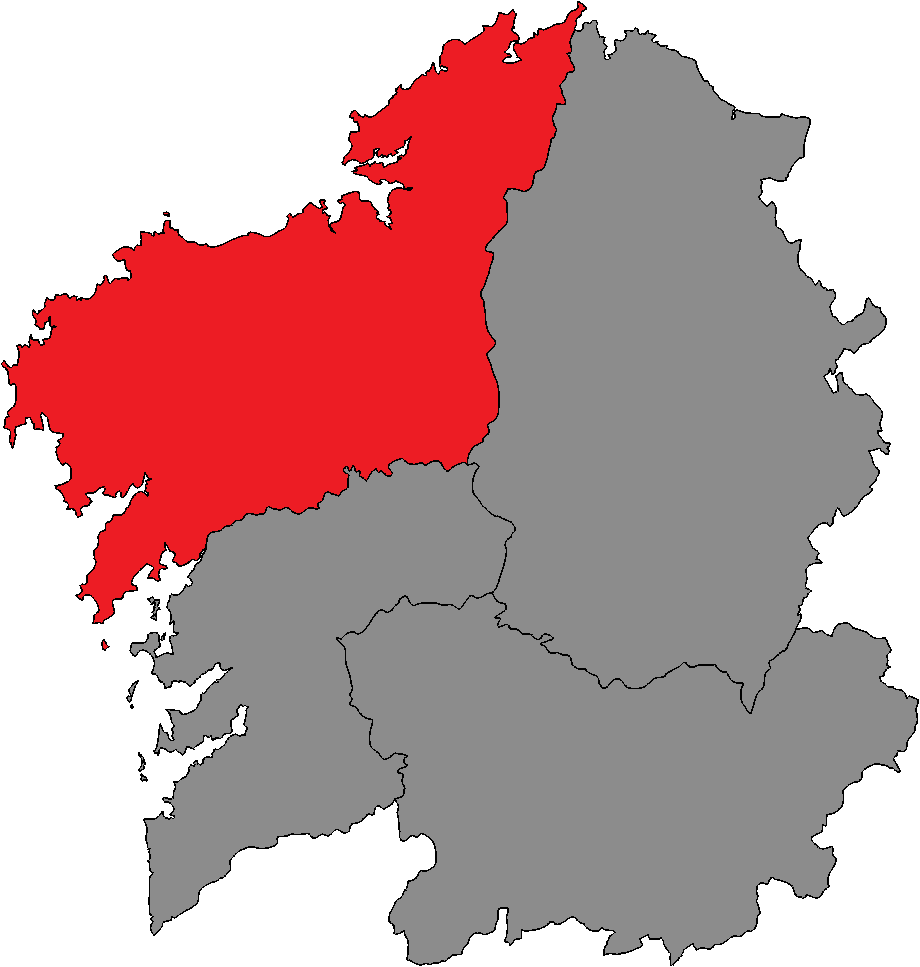 Galician Parliament district of A Coruña.